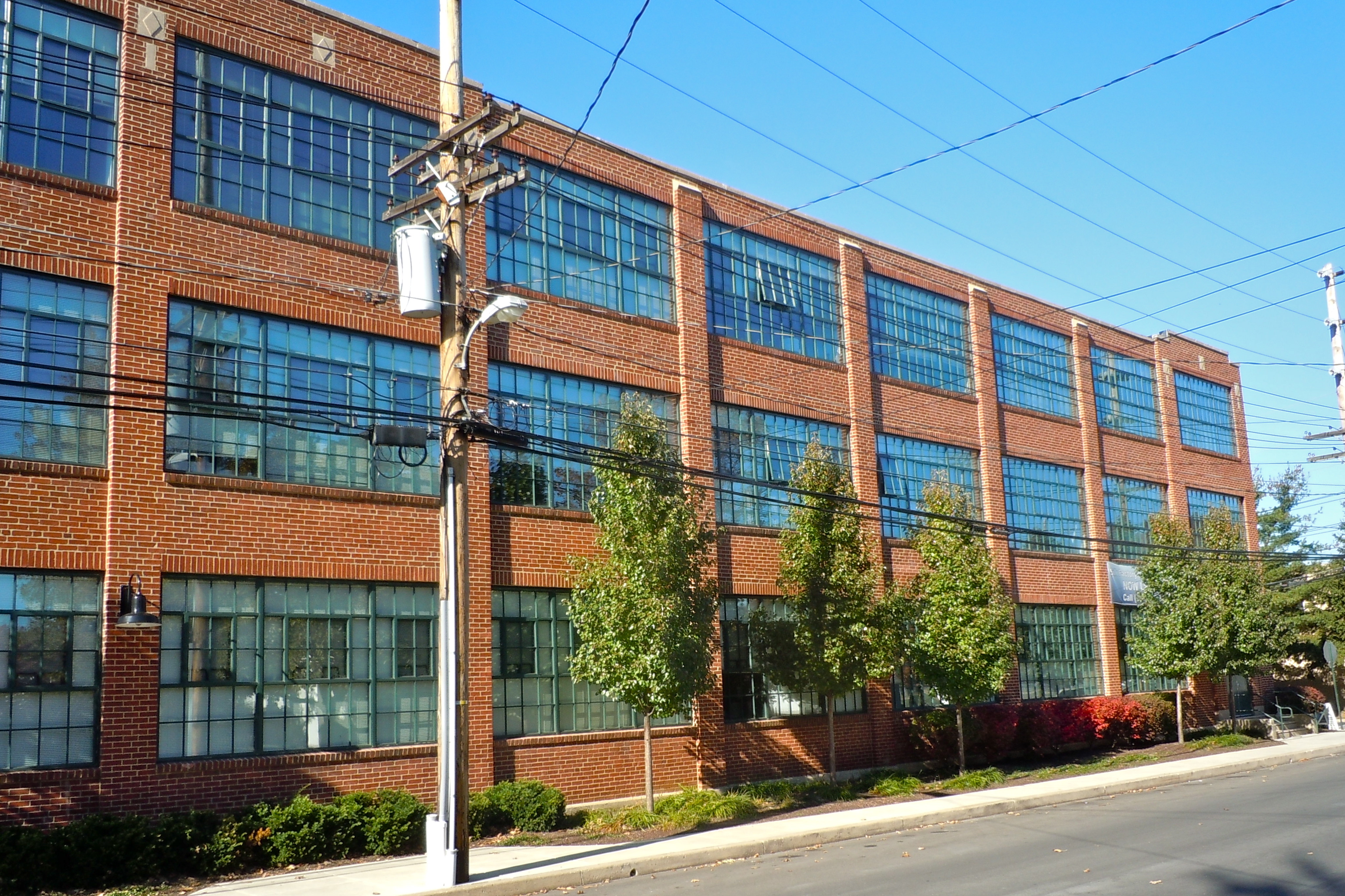 Lansdale Silk Hosiery Company-Interstate Hosiery Mills, Inc., on the NRHP since December 3, 2004. At 200 South Line Street, Lansdale, Montgomery County, Pennsylvania. Now condos.